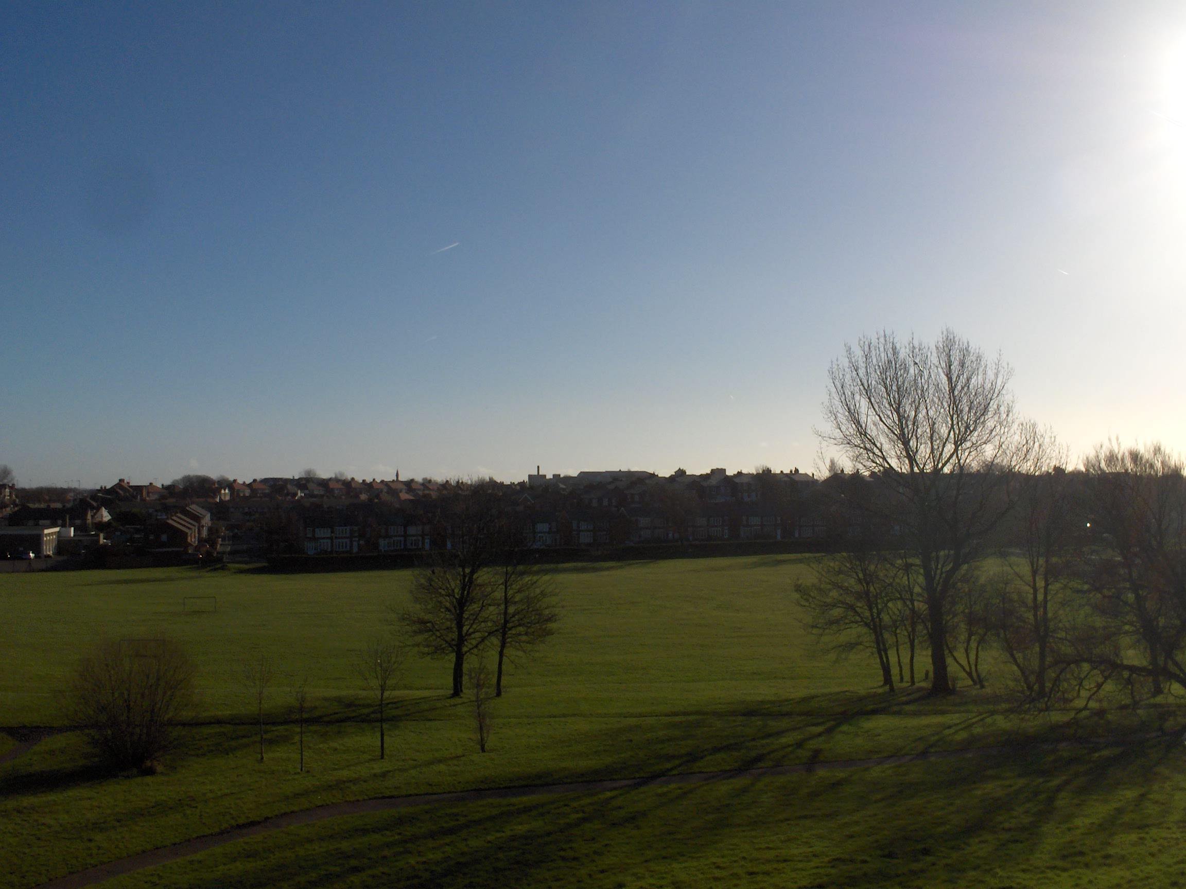 Photograph taken by fethroesforia.